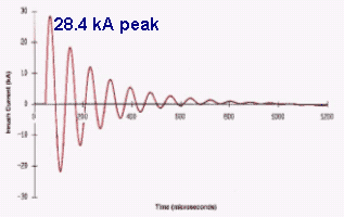 An example of inrush current transients during capacitor bank energization. The peak inrush current transient rises as high as 28.4 kA.